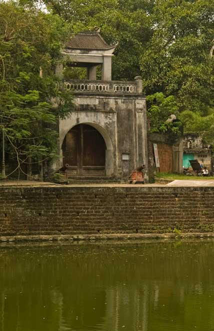 Reconstructed Northern Gate of the Tay Son citadel